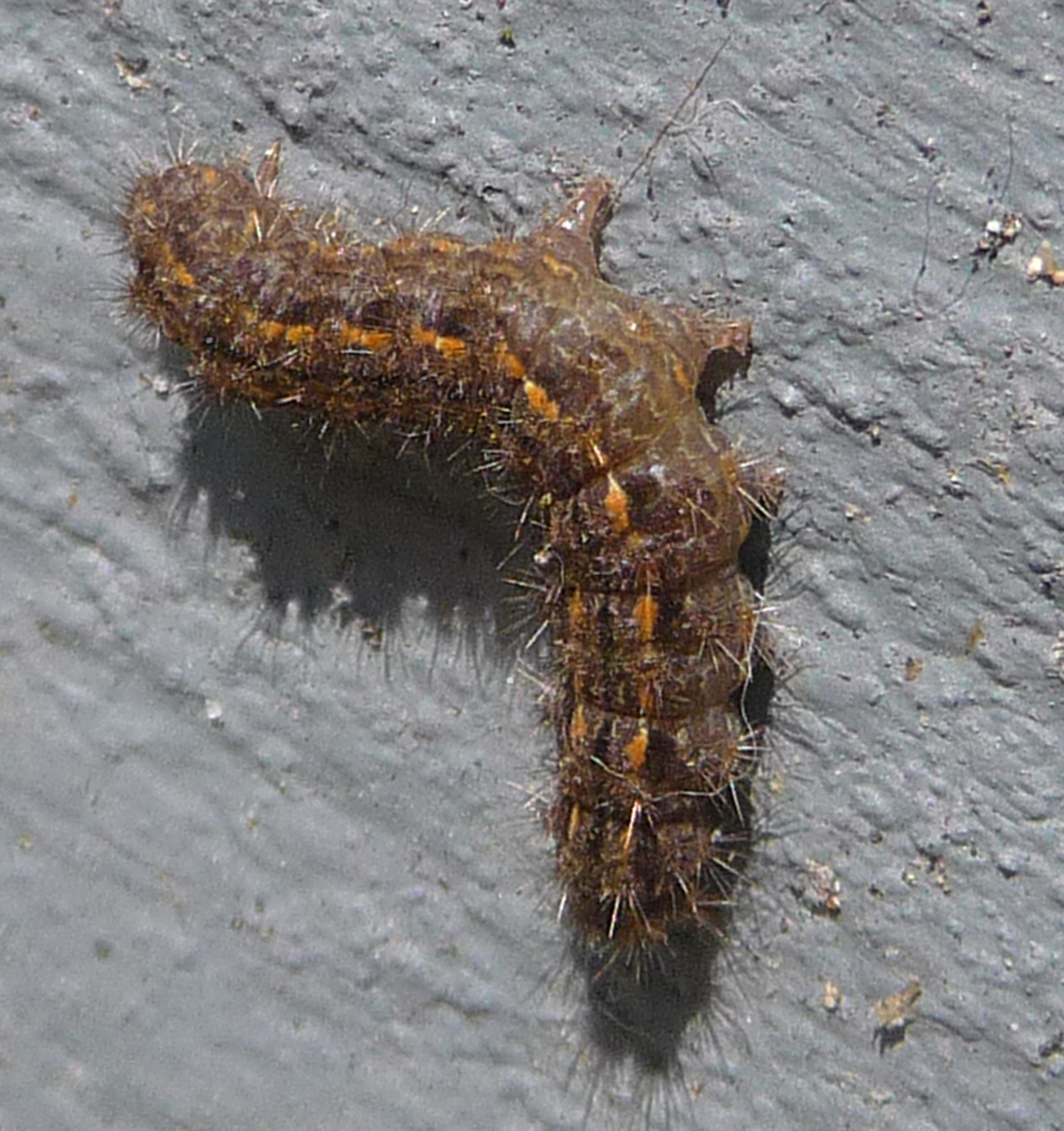 Caterpillar of Eilema caniola, Ludwigshafen, Germany